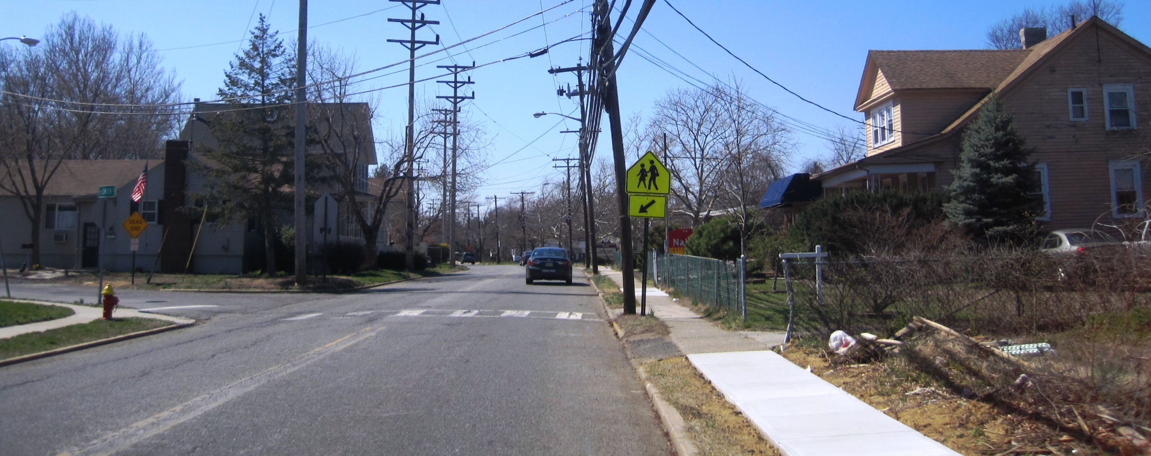 Photo of Cliffwood, New Jersey, an unincorporated community within Aberdeen Township. Photo taken looking south along Cliffwood Avenue (County Route 6A) at Smith Court.